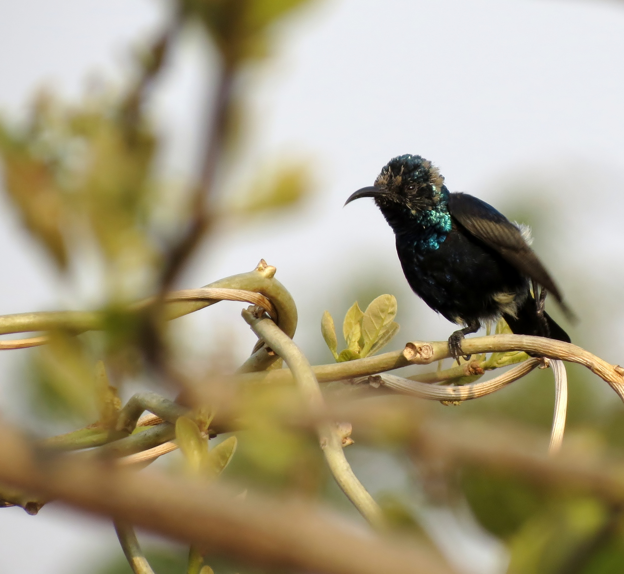 Black Sunbird, using my Canon Sx40.